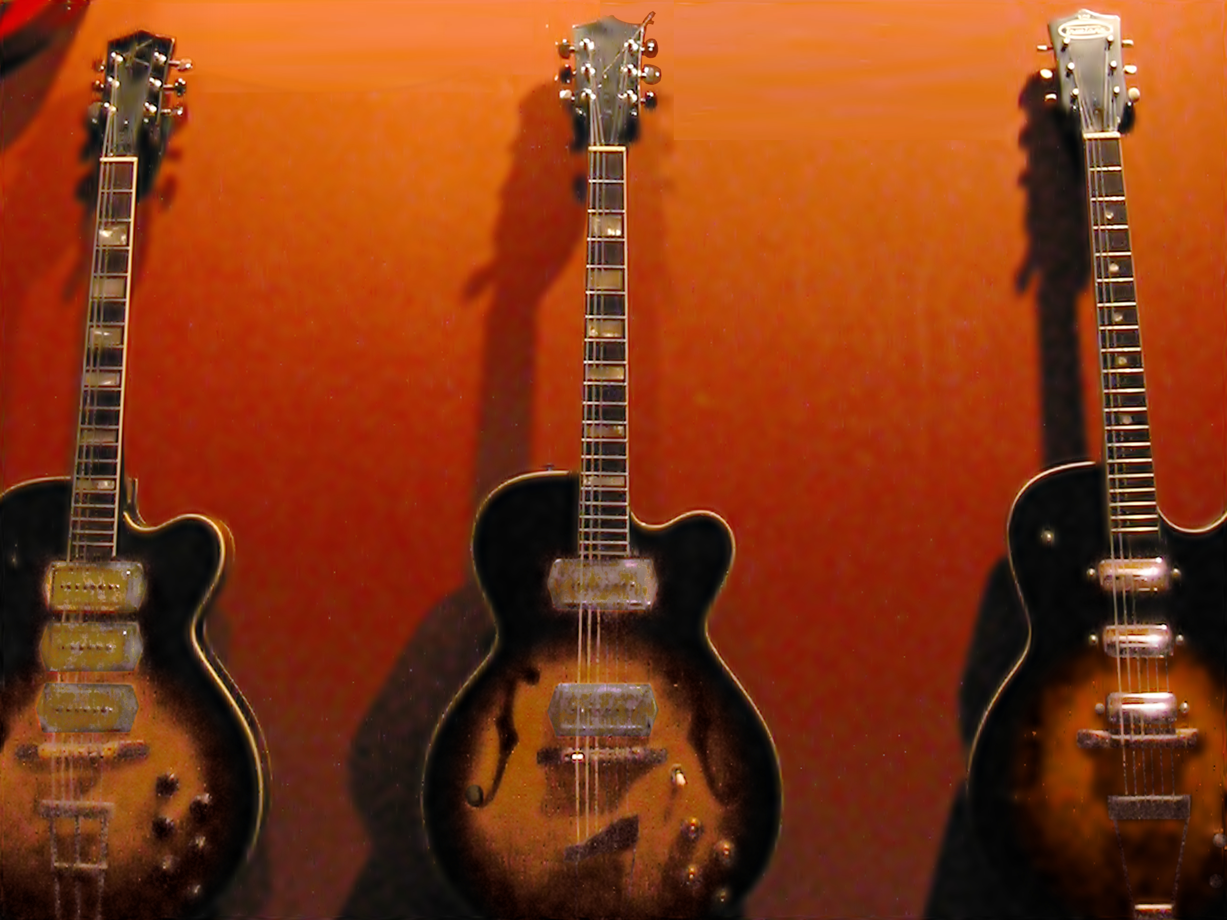 Rock and roll : At the studio in Chicago where I recorded. left : Kay Swing Master K673 [1] center : Kay Swing Master K672 [1] right : Truetone Jazz King [media 1] / Kay/Silvertone Speed Demon K573 [1][2] References ↑ a b c 1961 Kay Catalog. Kay Musical Instrument Co. ↑ Kay/Silvertone: Speed Demon (K573) circa 1964. . media ↑ 1963 Truetone Jazz King Vintage Electric Guitar AKA Silvertone - Kay Speed Demon model K573. Youtube